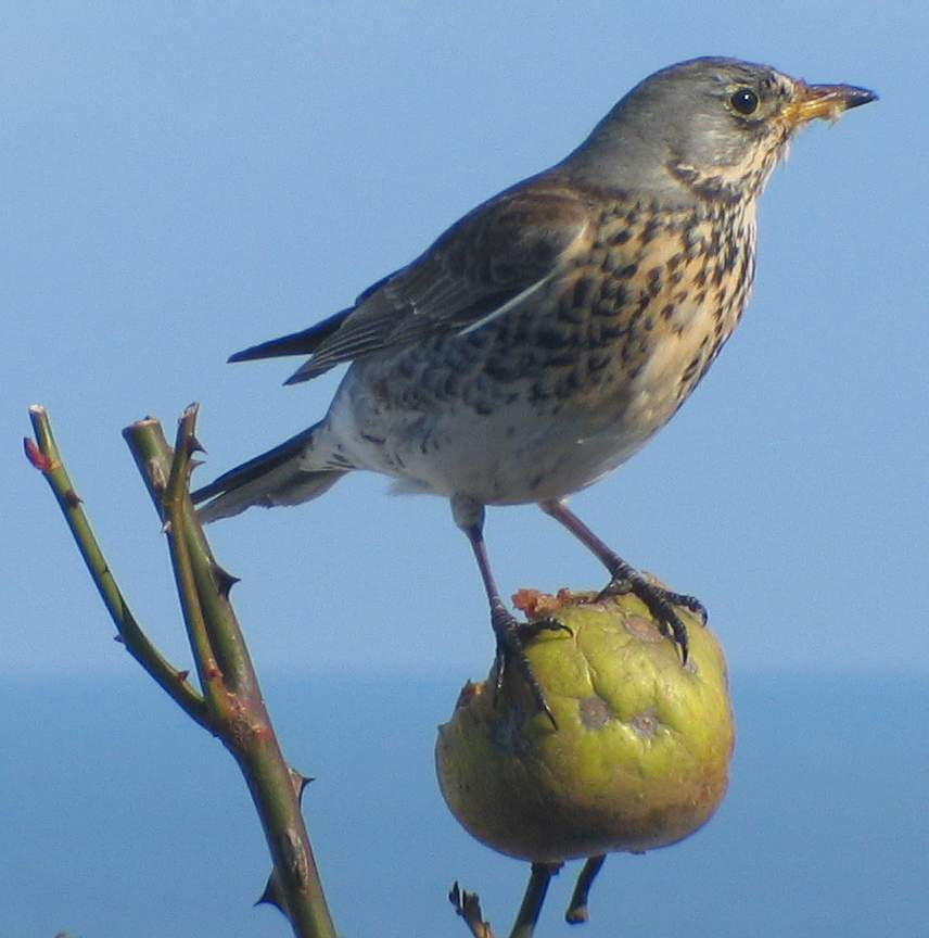 A photo of a fieldfare (Turdus pilaris). Taken by Soebe in nothern Germany and released under GNU FDL.